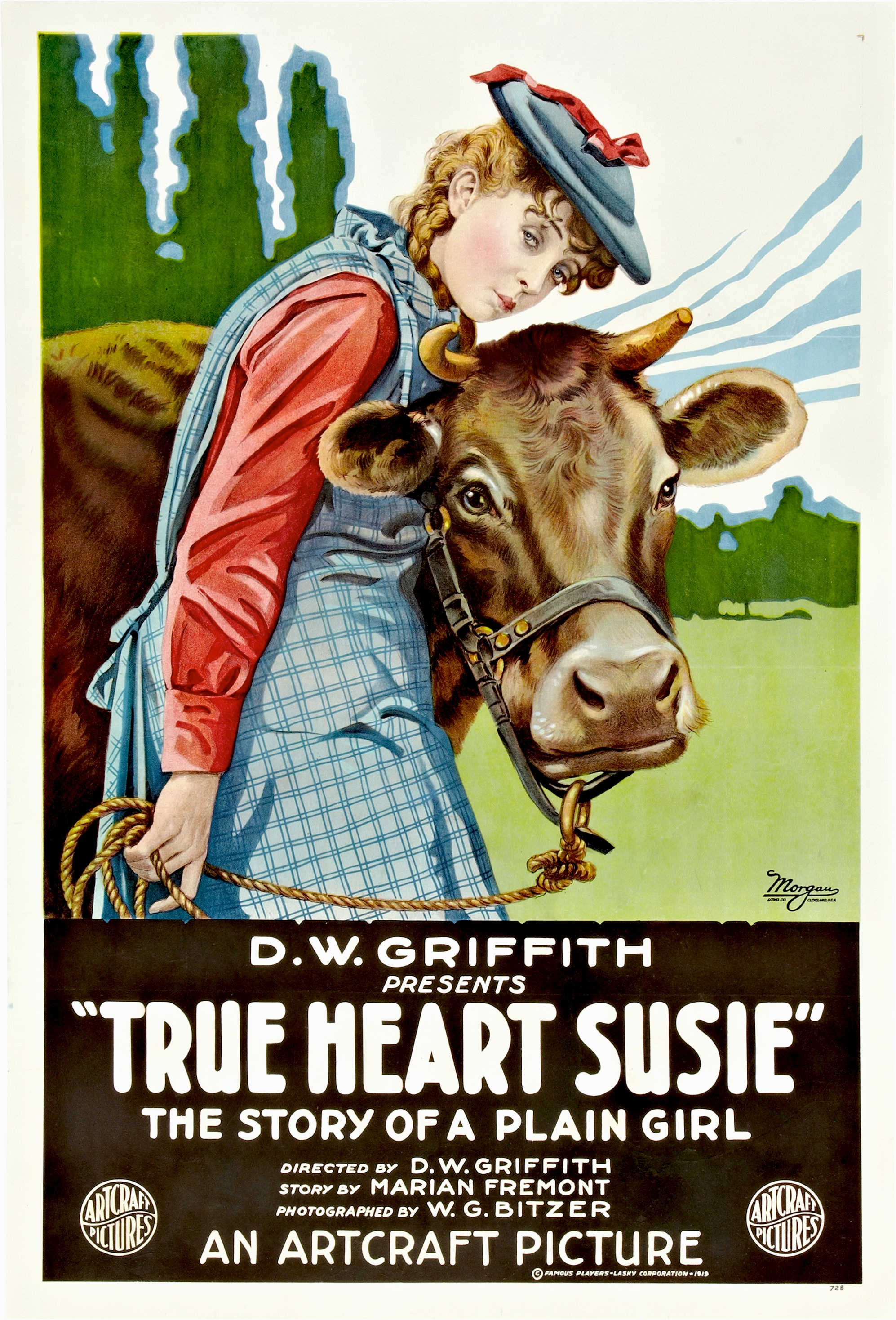 True Heart Susie is a 1919 American drama film directed by D. W. Griffith and starring Lillian Gish. This is a poster for the film .